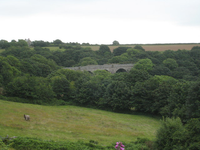 Railway viaduct over the River Cober This granite viaduct once carried the long-disused Helston branch line across the Cober valley.